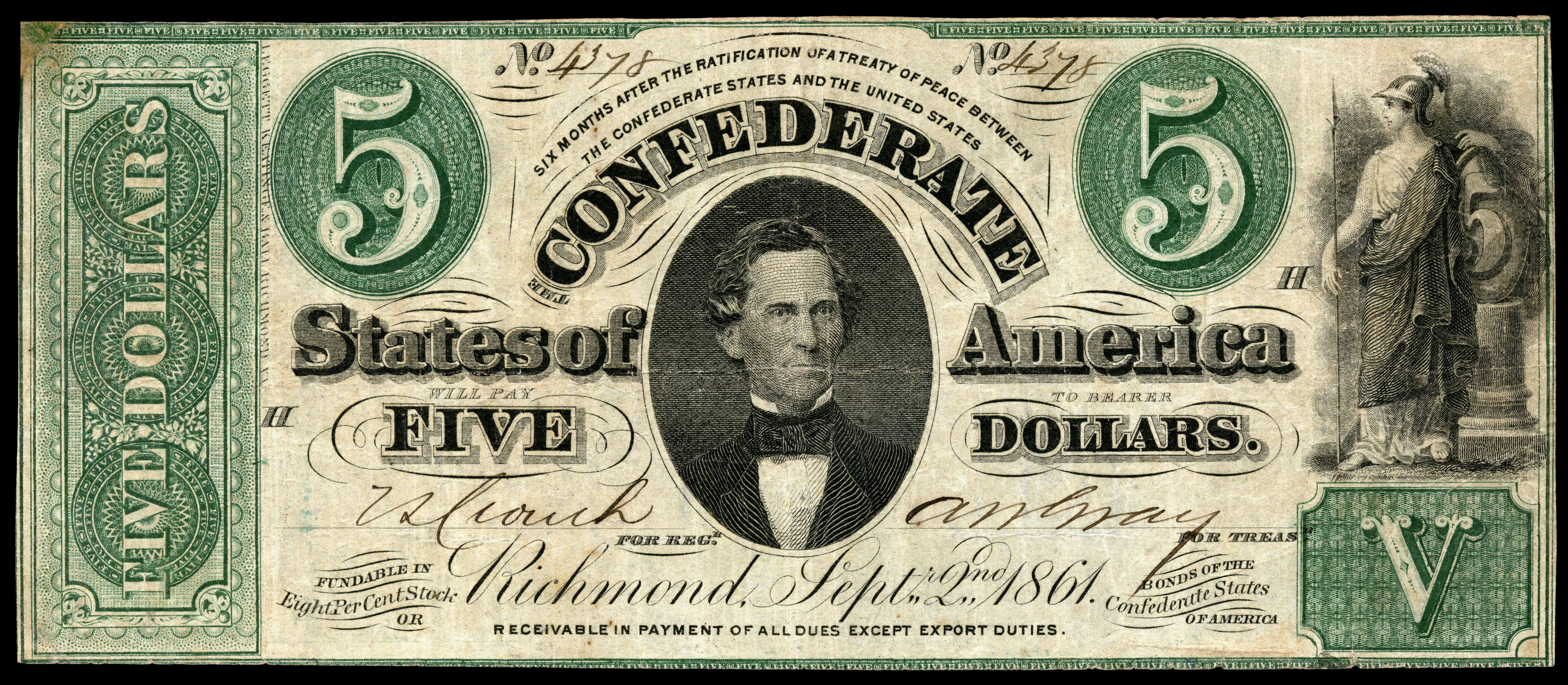 CSA-T33-$5-1862